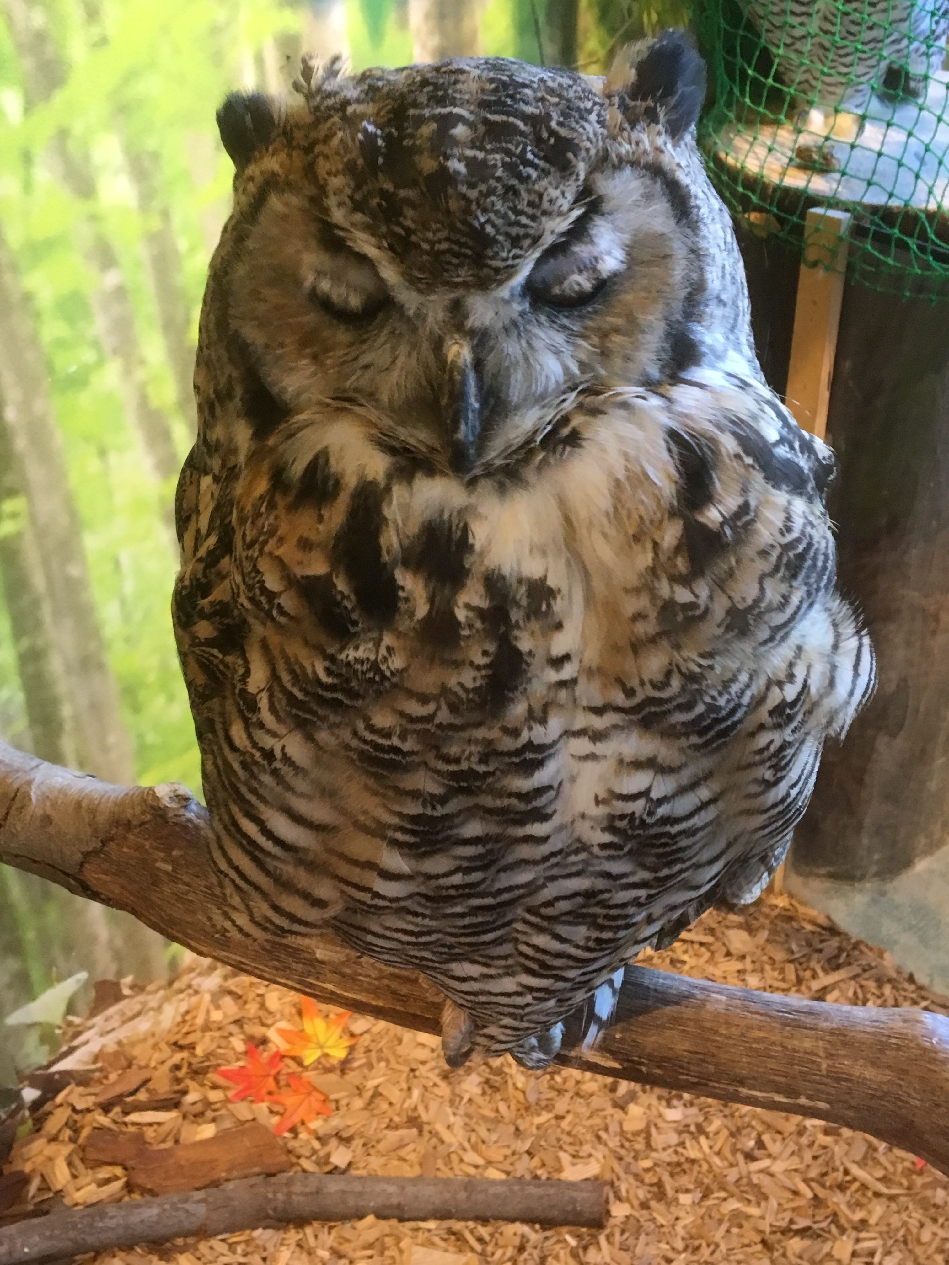 Bubo virginianus / Great Horned Owl Otus kennicottii